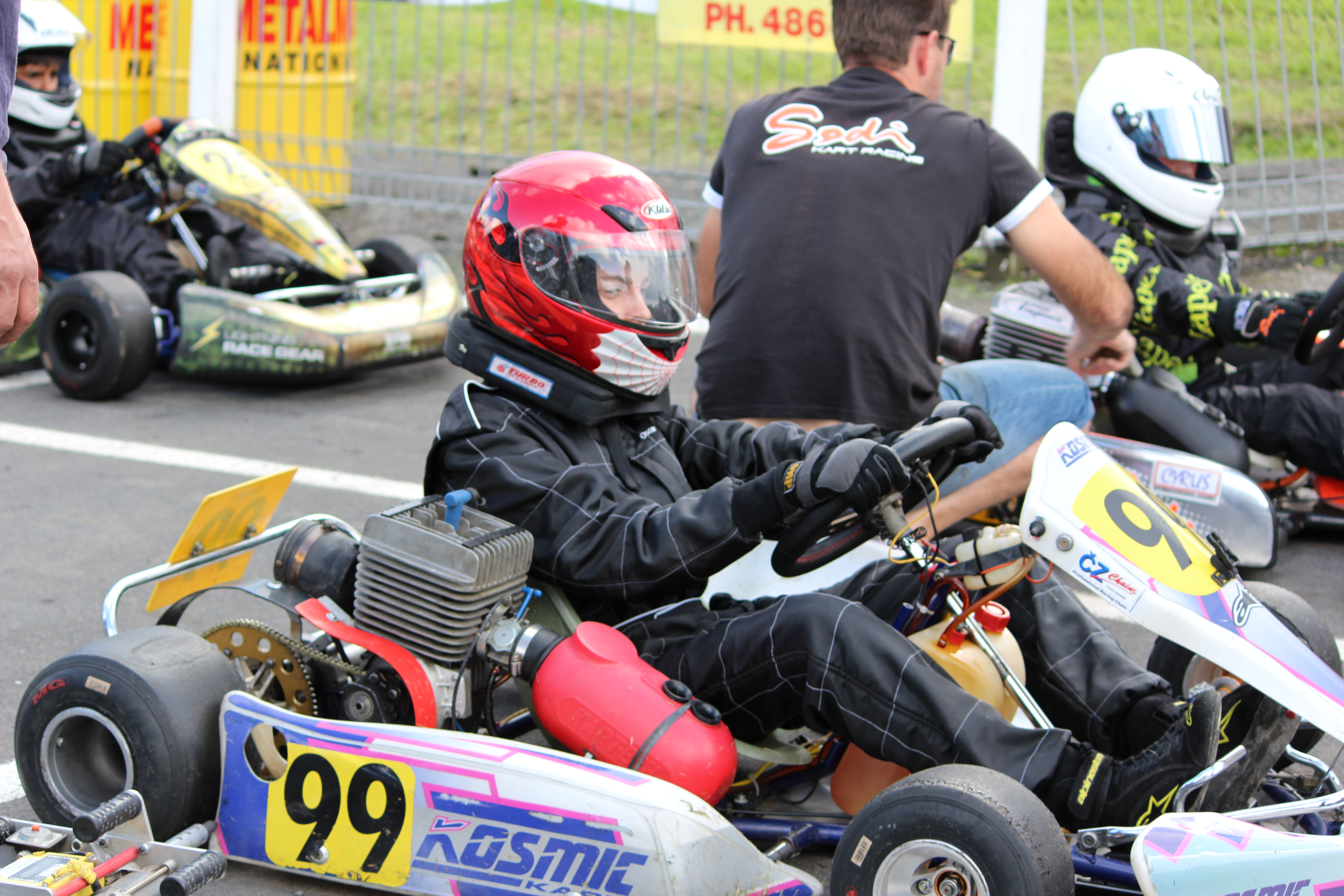 A driver on the grid at KartSport Mt Wellington with a 2008 Kosmic TS28 chassis with a KT100 with a can muffler